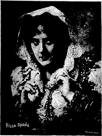 Hilda Spong on the cover of the New York Clipper, 1899.